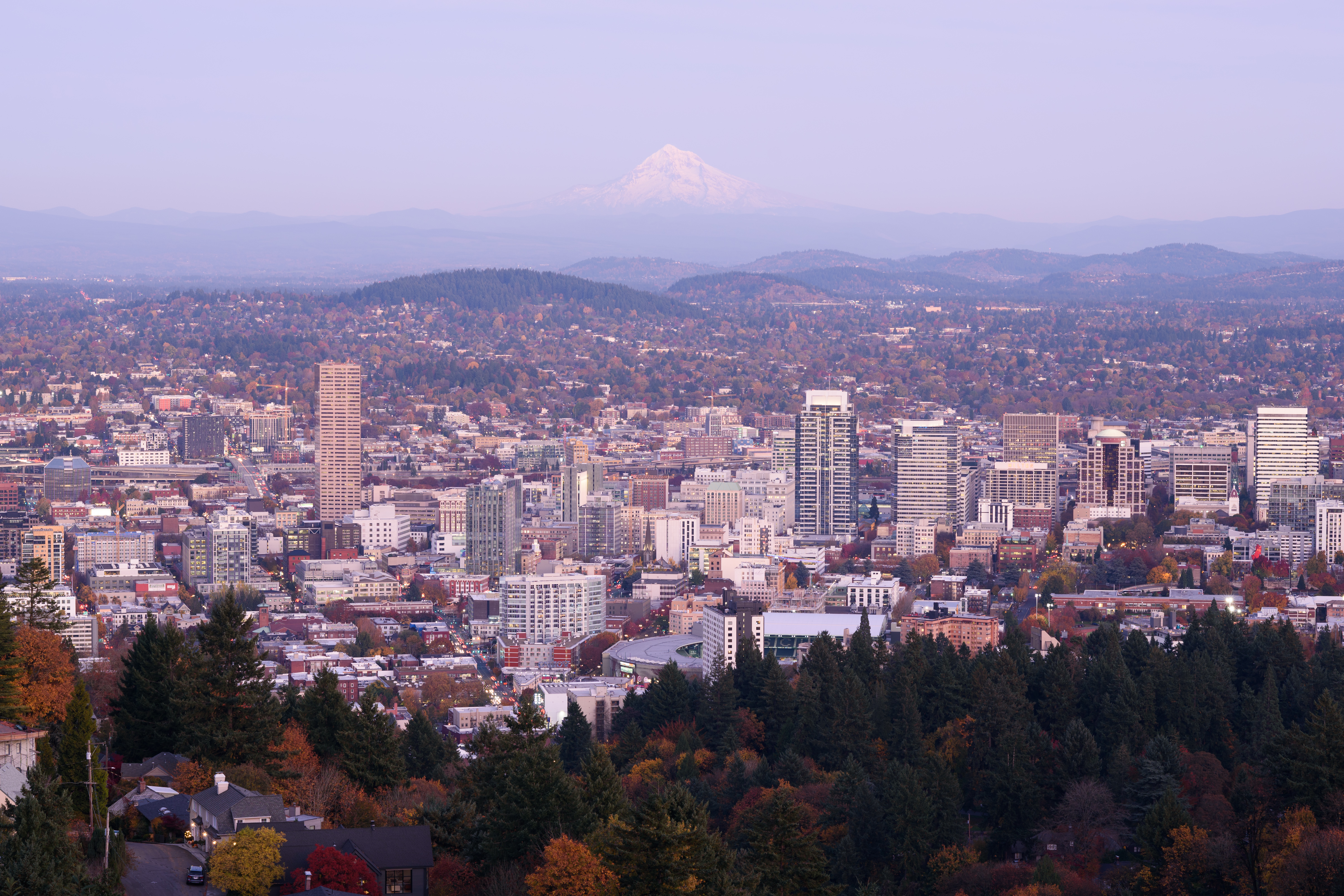 Skyline of Portland, Oregon, from Pittock Mansion viewpoint at dusk.